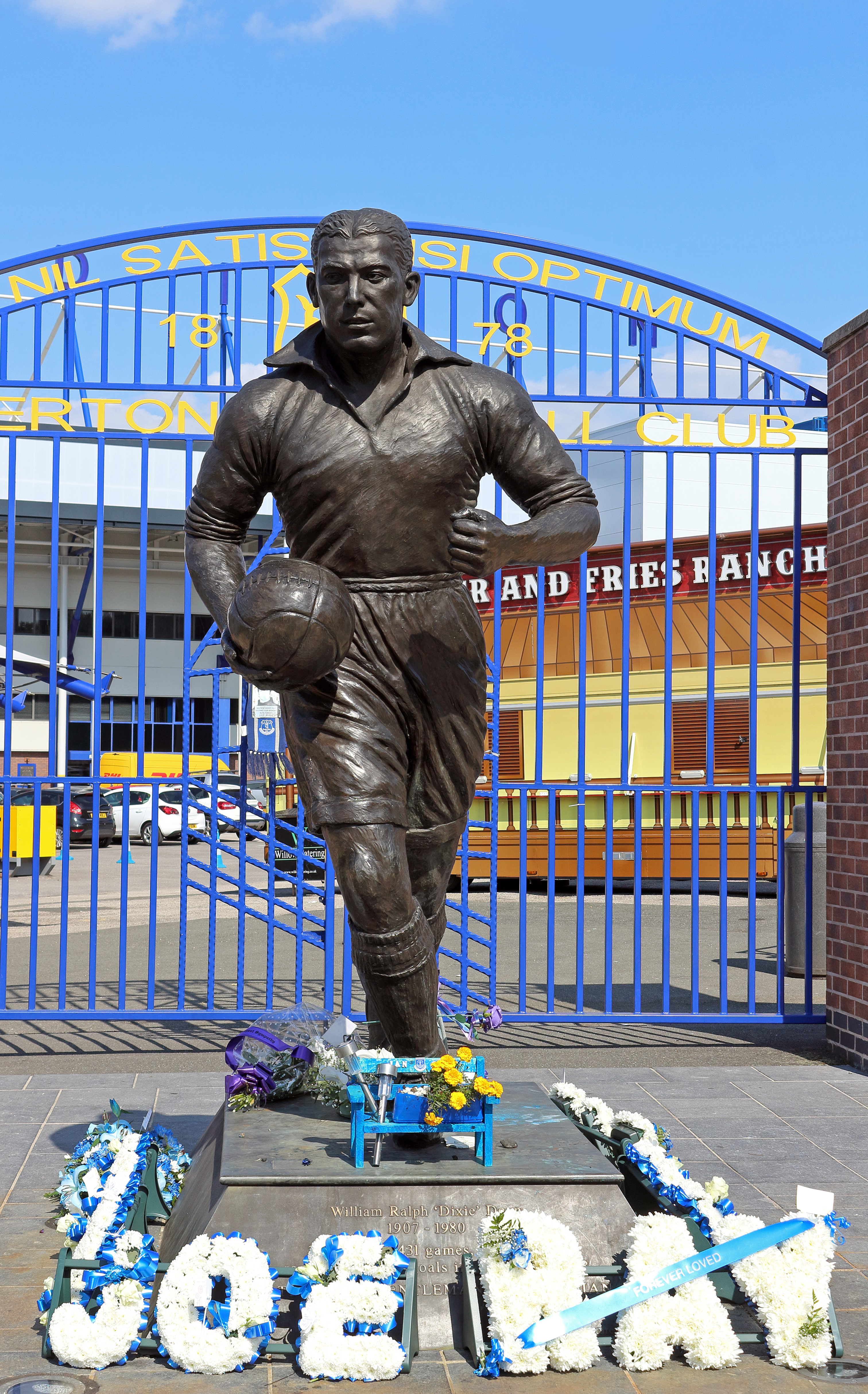 The status of Dixie Dean, legendary Everton FC player, in front of Goodison Park.